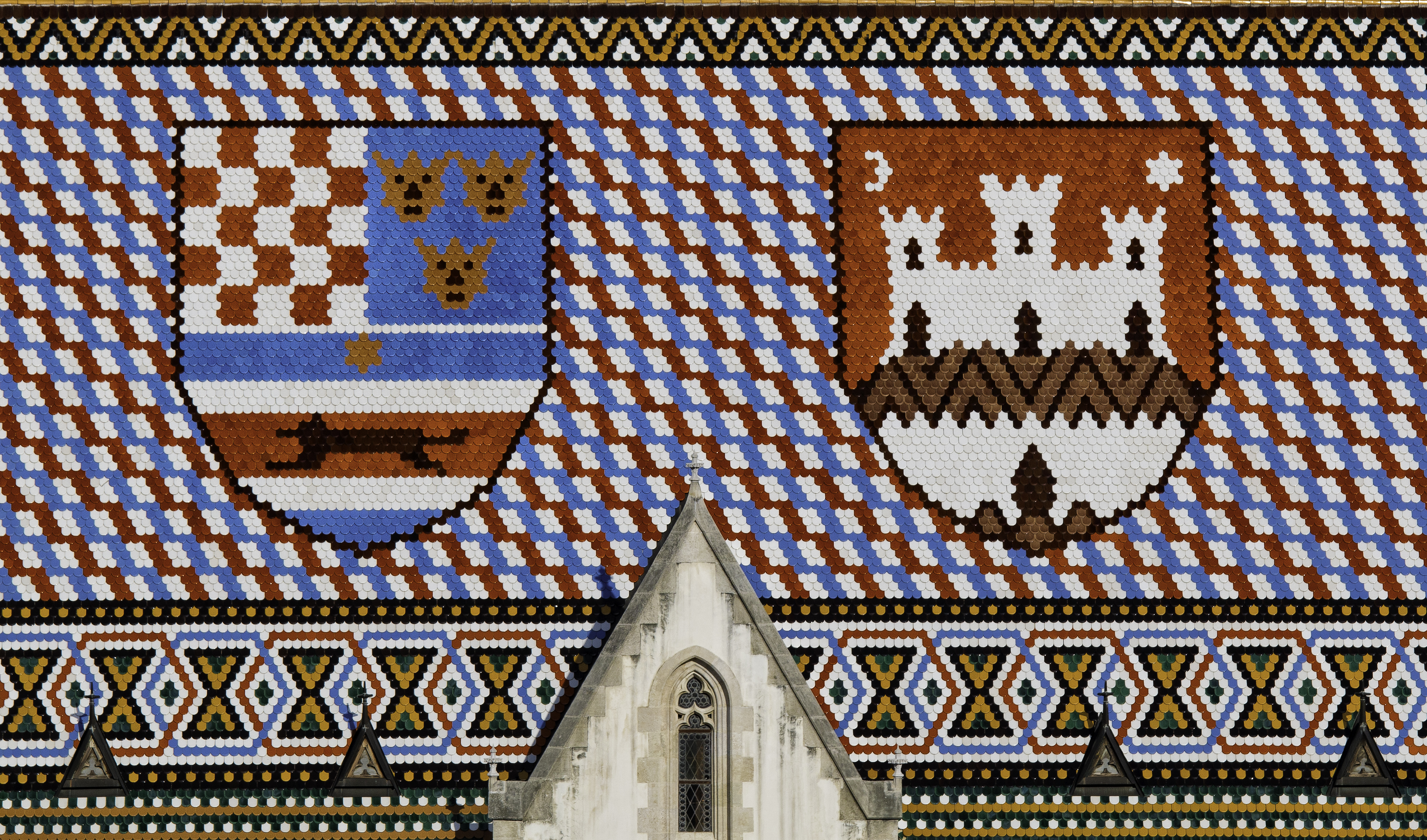 Roof of St, Mark's Church, Zagreb This is a a photo of a cultural heritage in Croatia with ID: Z-182